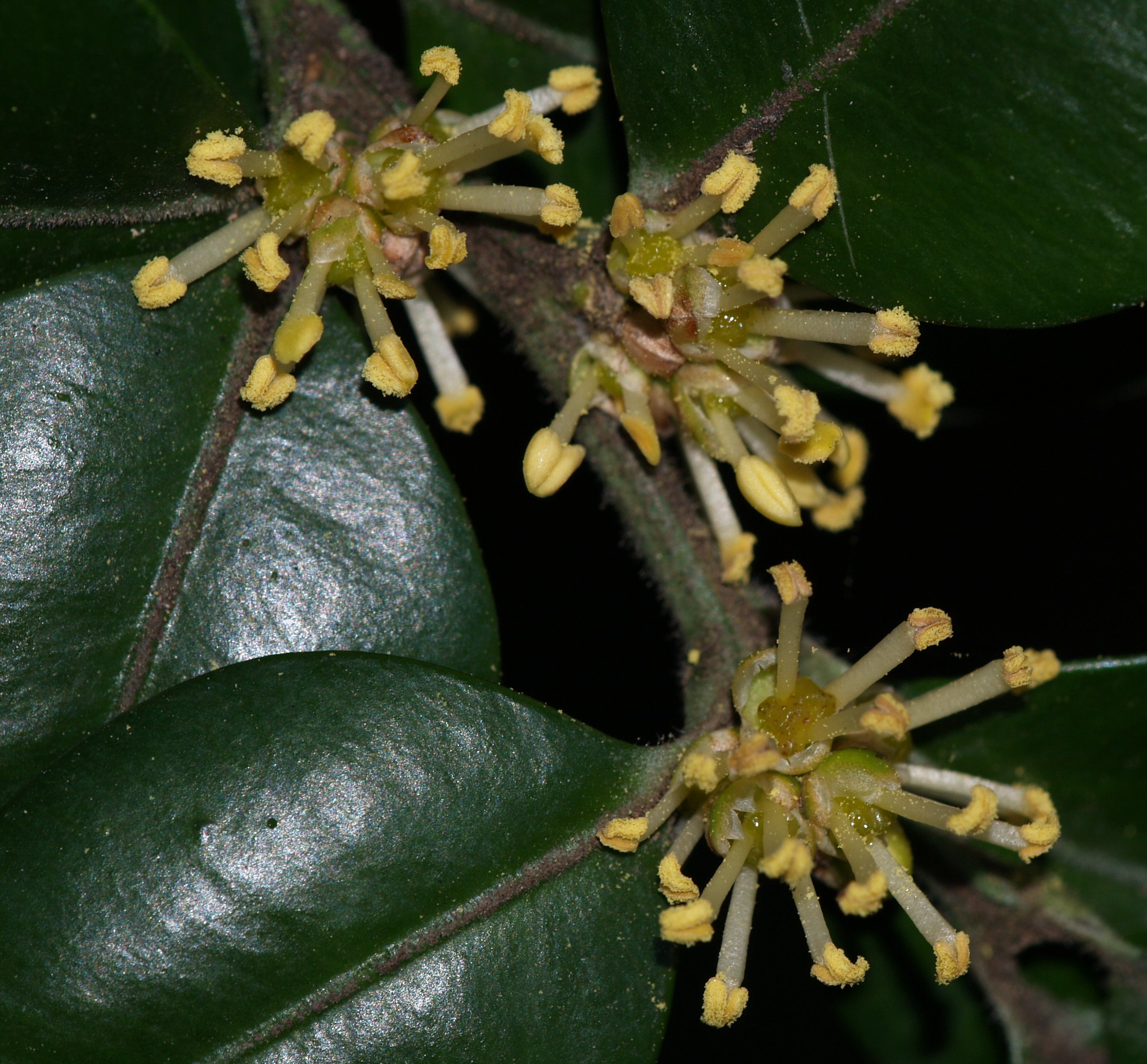 Buxus sempervirens flowers in the Botanical Garden (Flora) of Cologne, Germany.